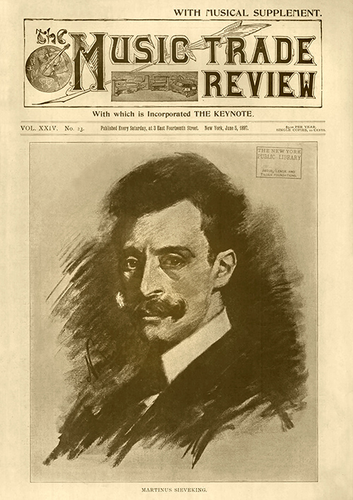 Dutch pianist Martinus Sieveking on the cover of Music Trade Review on June 5, 1897 published in New York City.